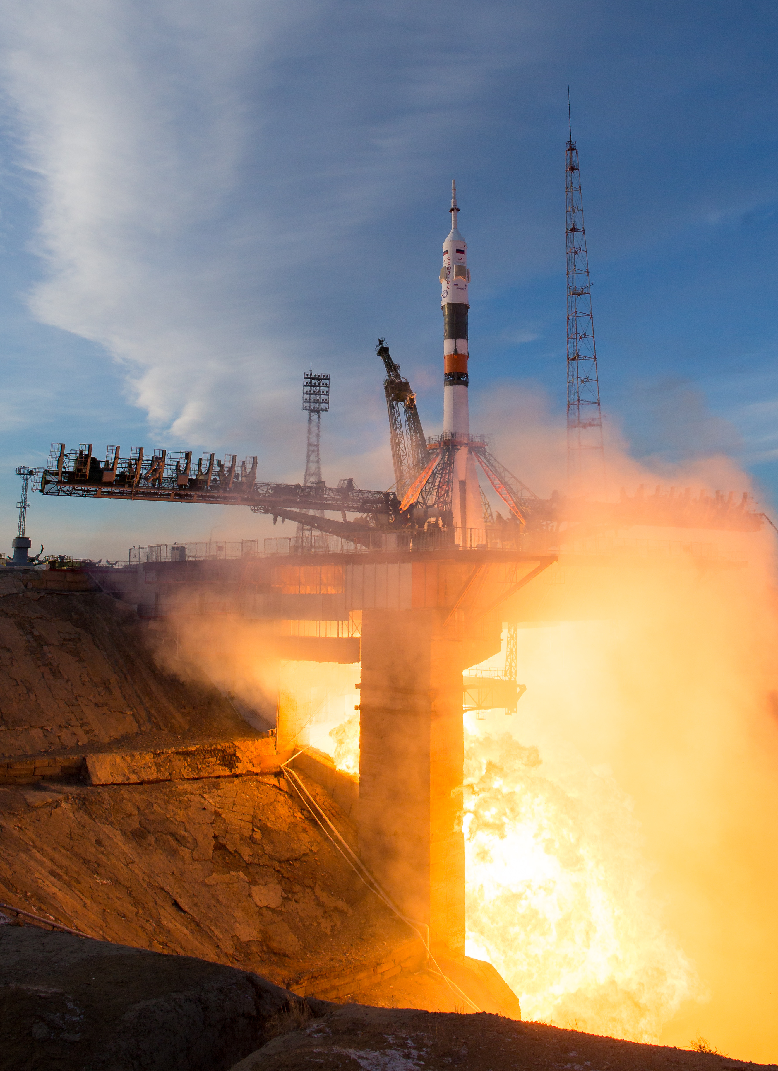 A Soyuz booster rocket launches the Soyuz MS-11 spacecraft from the Baikonur Cosmodrome in Kazakhstan on Monday, Dec. 3, 2018, Baikonur time, carrying Expedition 58 Soyuz Commander Oleg Kononenko of Roscosmos, Flight Engineer Anne McClain of NASA, and Flight Engineer David Saint-Jacques of the Canadian Space Agency (CSA) into orbit to begin their six and a half month mission on the International Space Station.